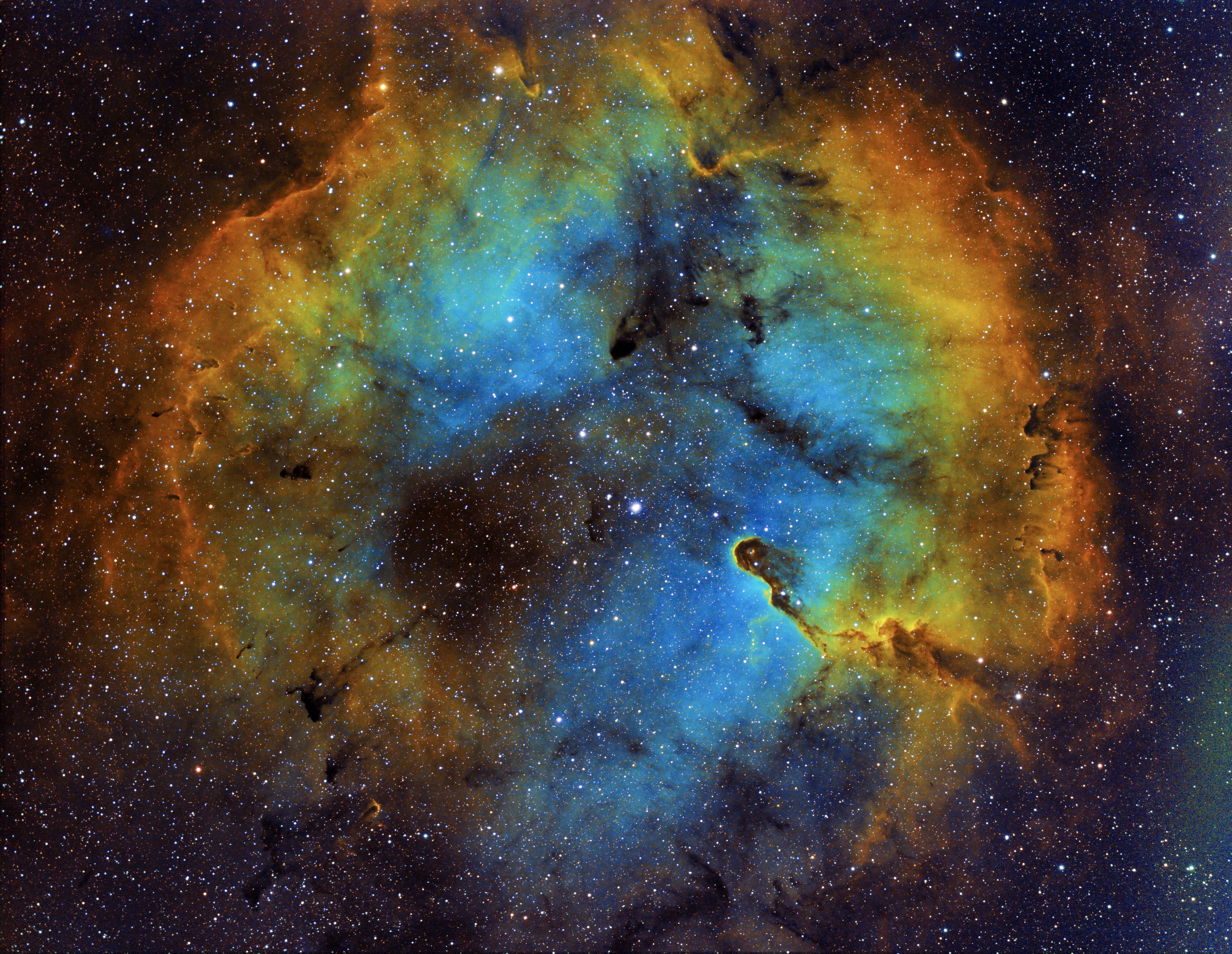 This is one of several images captured in 2018 by Ram Samudrala from his backyard. Details of the capture can be gotten from